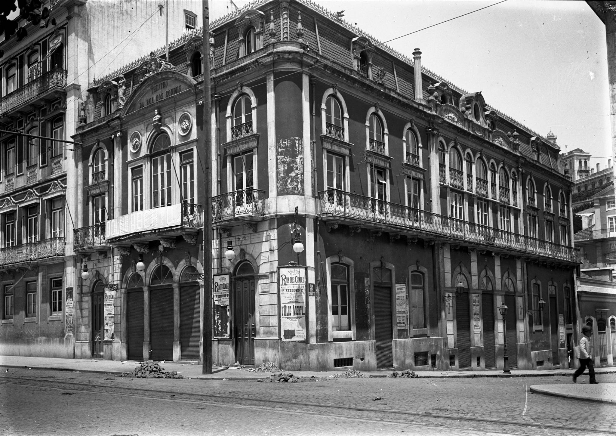 The Theatre of Rua dos Condes, in Lisbon, following its 1888 renovation.